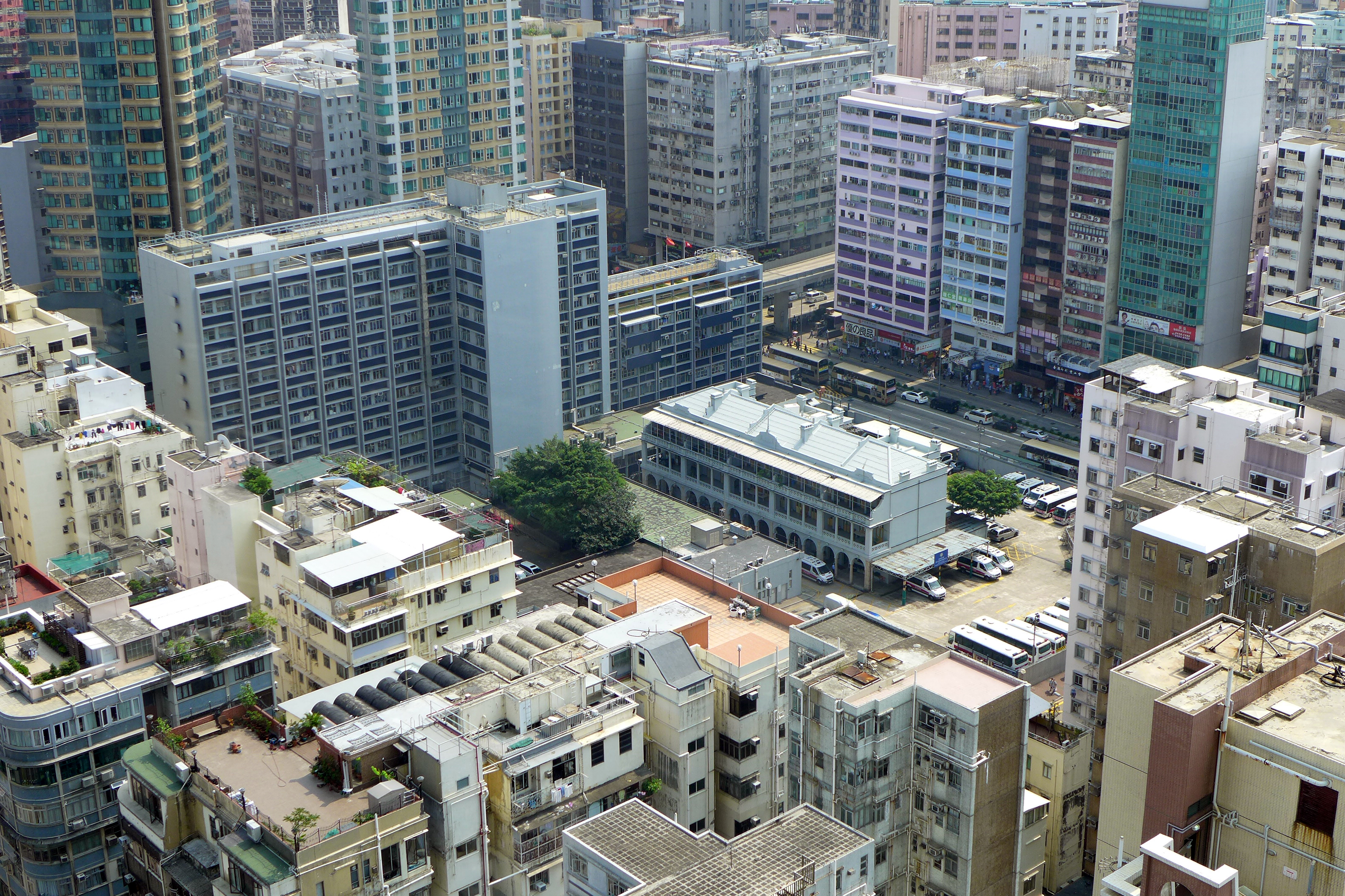 Mong Kok Divisional Police Station